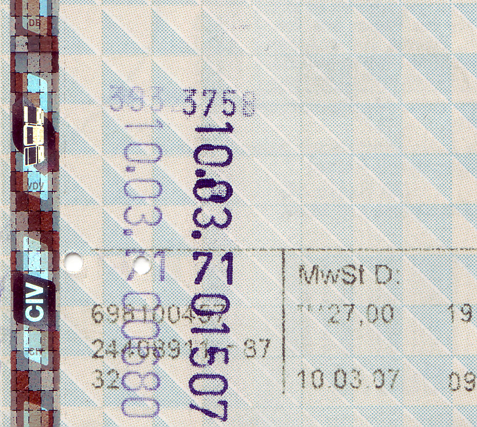 Conducter validation stamps on a Deutsche Bahn vending-machine rail ticket